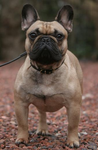 Confucius de la Parure